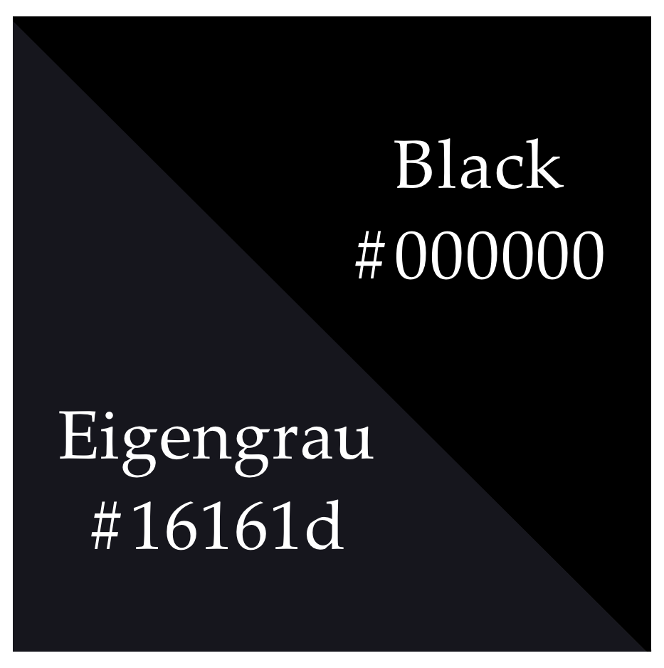 Comparison of the Eigengrau color vs the Black color with color codes.